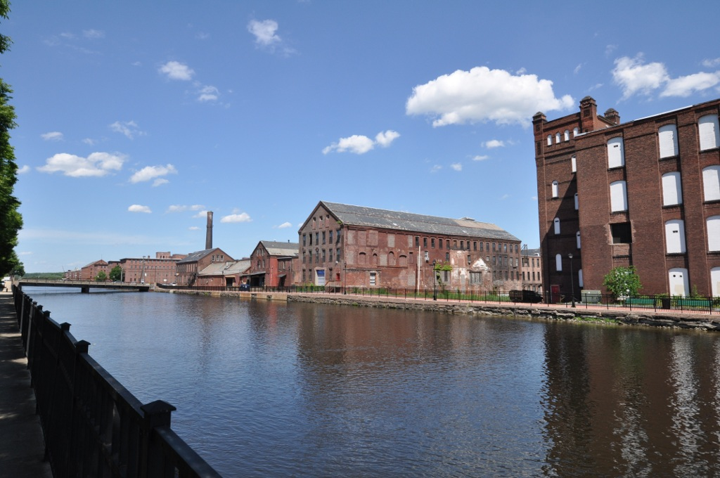 The first level canal of the Holyoke Canal System, Holyoke, Massachusetts